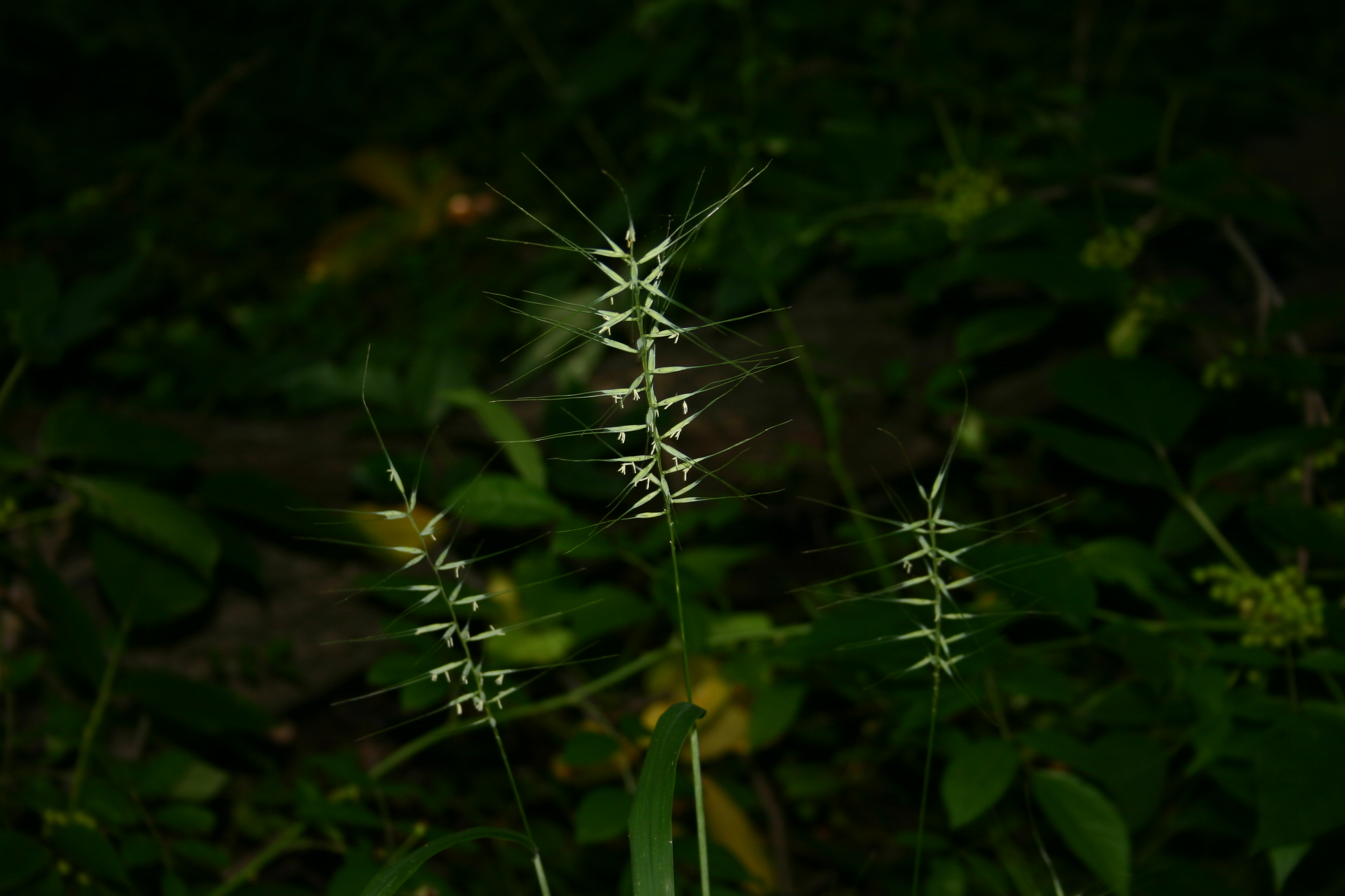 Elymus hystrix inflorescences